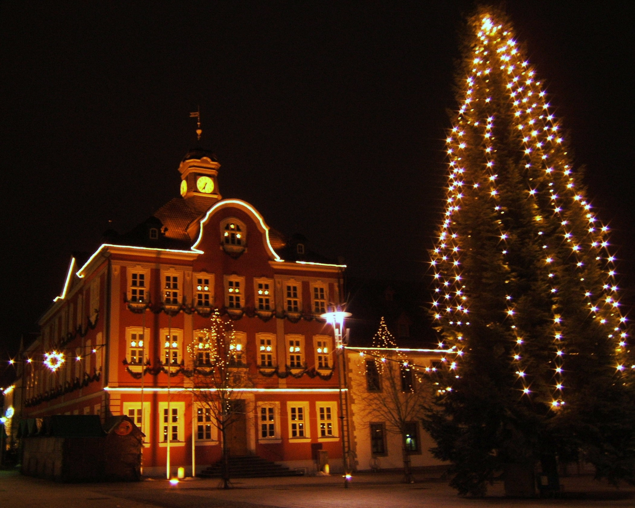 Christmas tree and magistrat on the market in Suhl